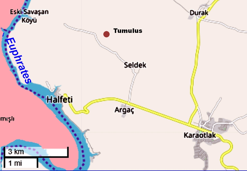 Map showing the location of Seldek, a village just east of Halfeti in the province of Urfa, Turkey;Other information: The location of the tumulus (Höyük tepe)was added using map in The area is in primarily in the province of Urfa, but the area in pink is outside.